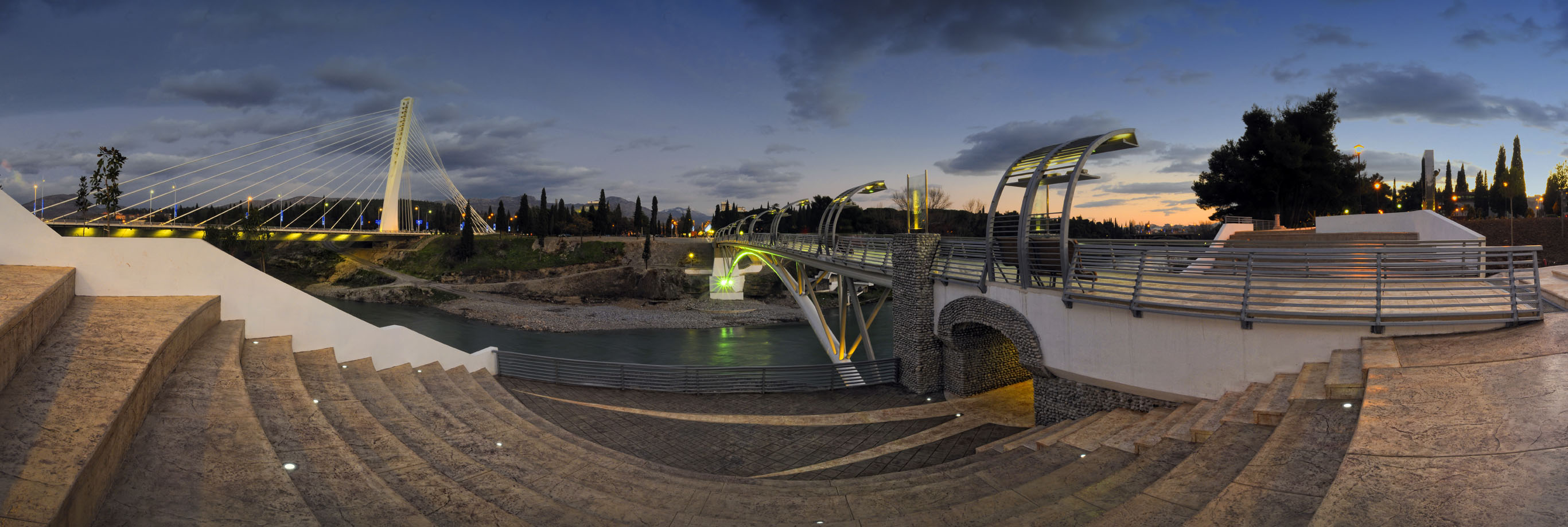 Picture showing two main bridges in Podgorica